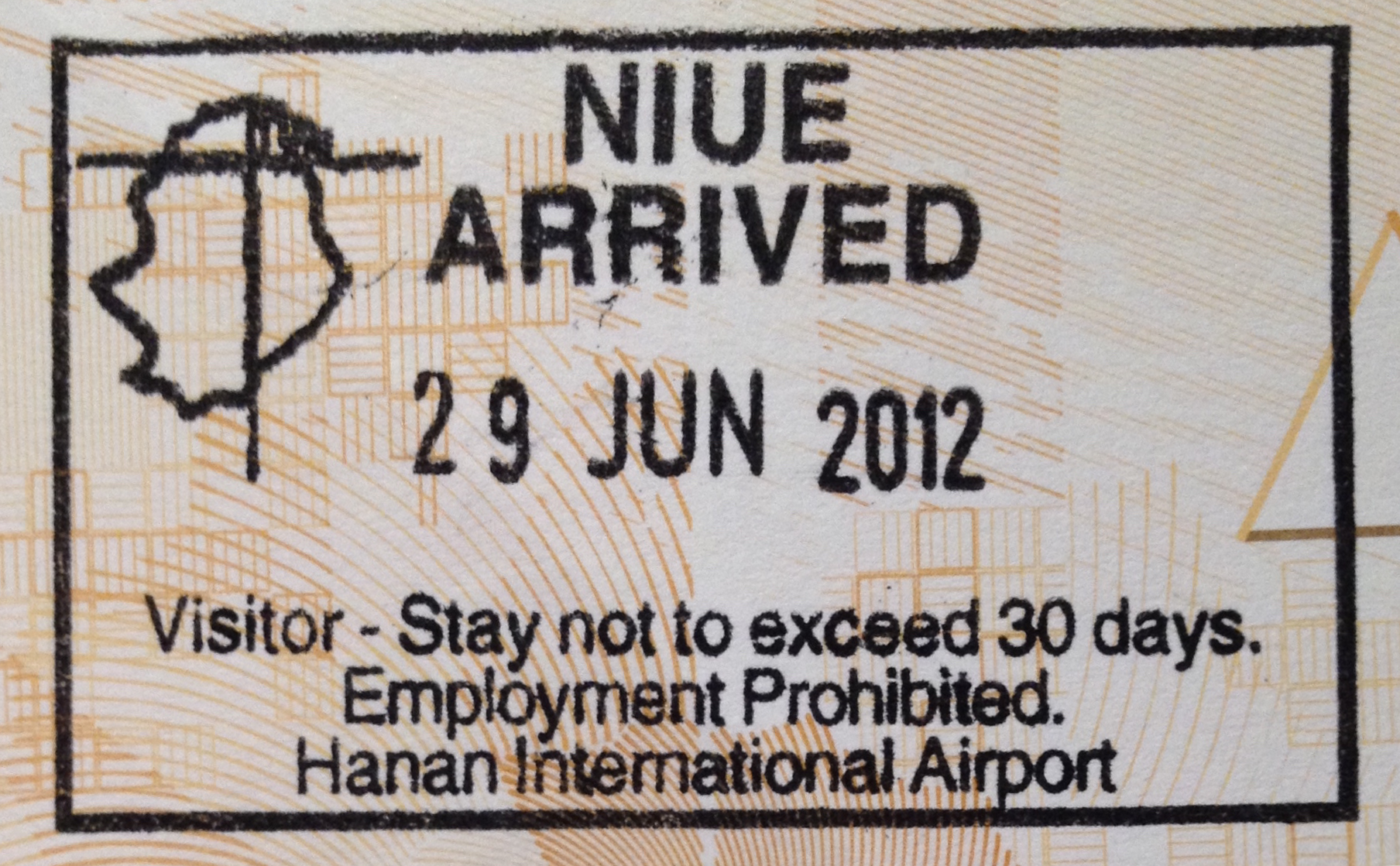 Entry passport stamp from Niue Island.